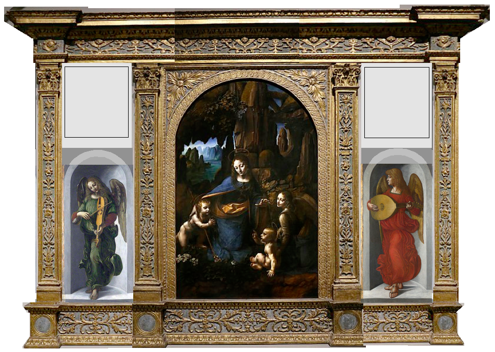 Proposal for reconstruction of the altarpiece